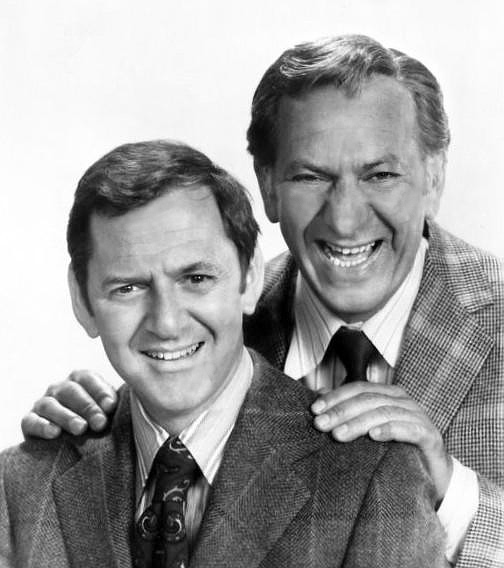 Publicity photo of Tony Randall and Jack Klugman from the television program The Odd Couple.